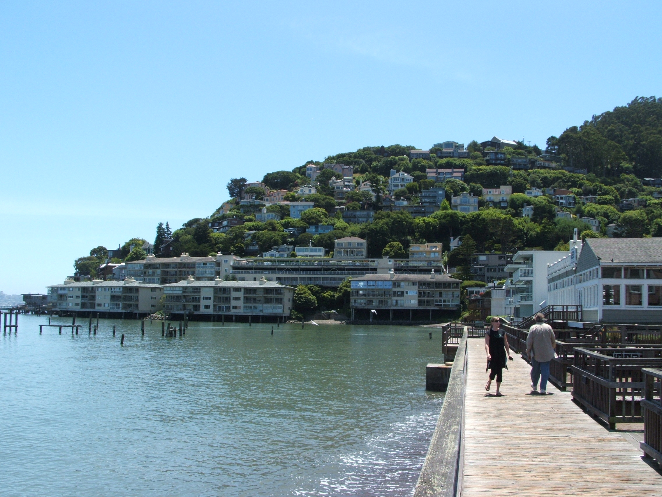 Sausalito, California, Sausalito.